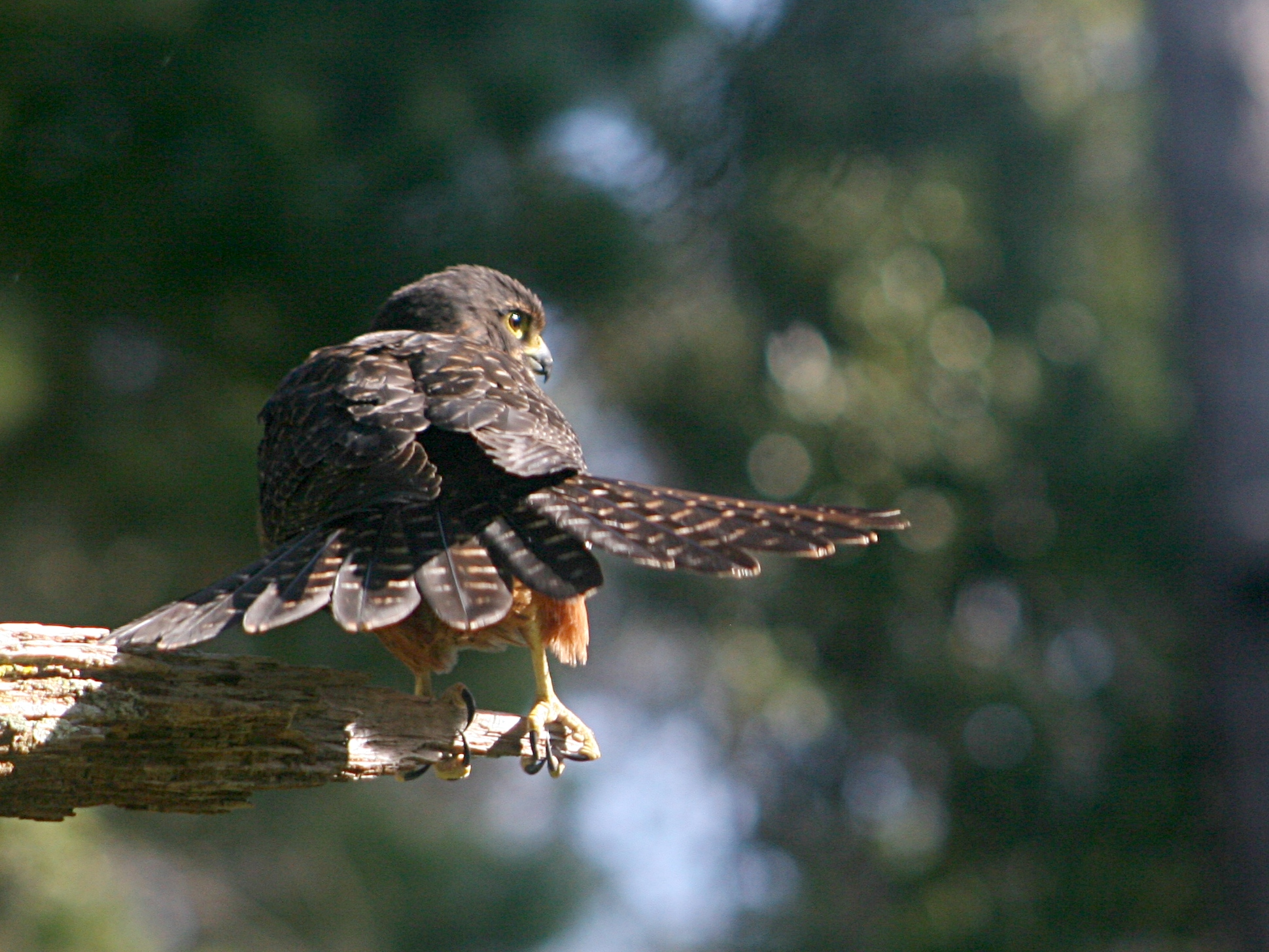 The New Zealand Falcon, flexing it's tail just before it takes off, Zealandia wildlife sanctuary. Wellington, New Zealand. Māori: Kārearea